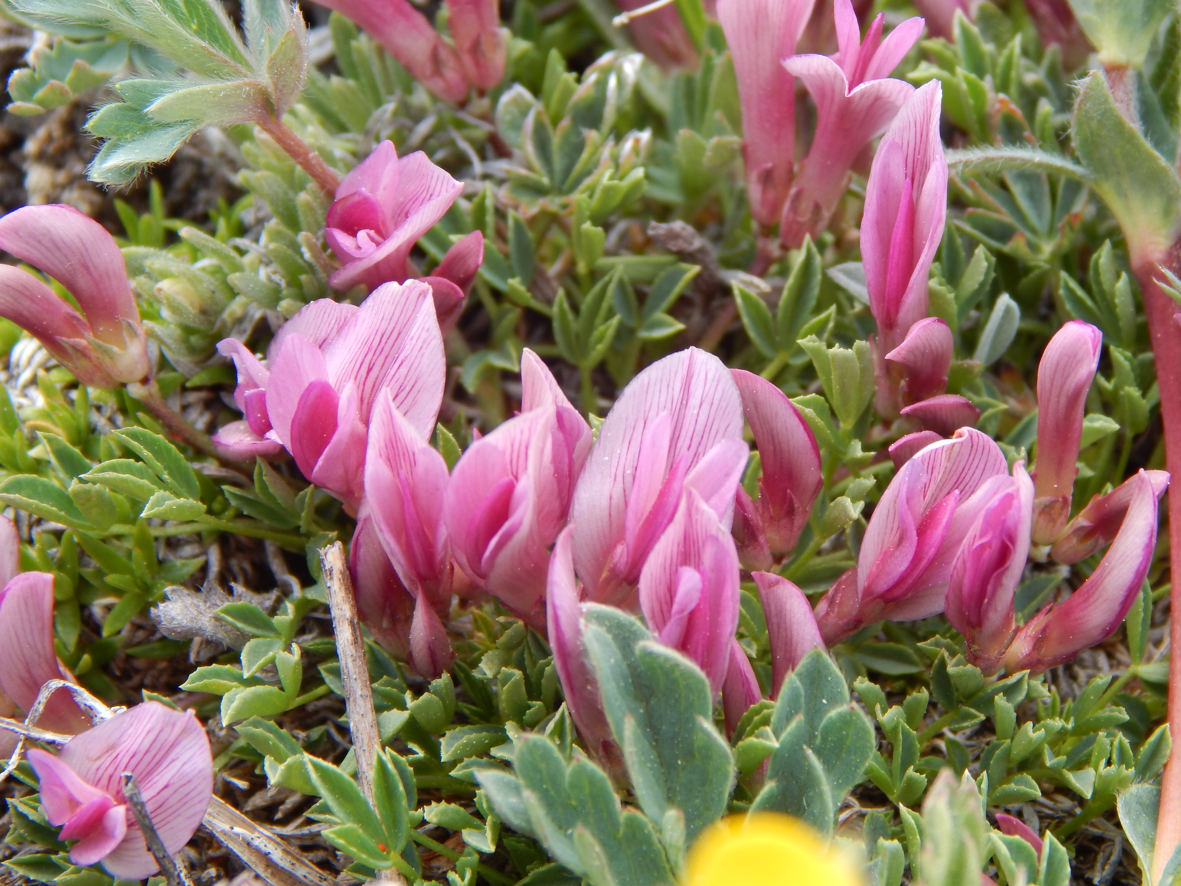 Close up of Dwarf Clover